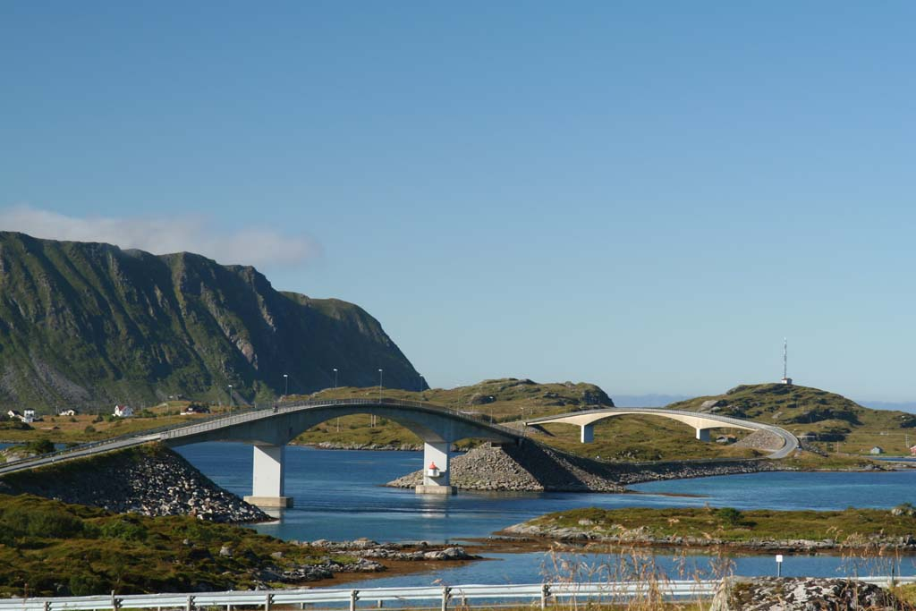 Bridges on the road between Ramberg and Fredvang in Lofoten, Norway. Left: Kubholmleia Bridge, right: Røssøystraumen Bridge. Original description: 23 Agosto 2006 15:20 - Tragitto Svolvær-Å - I classici ponti che collegano le Lofoten